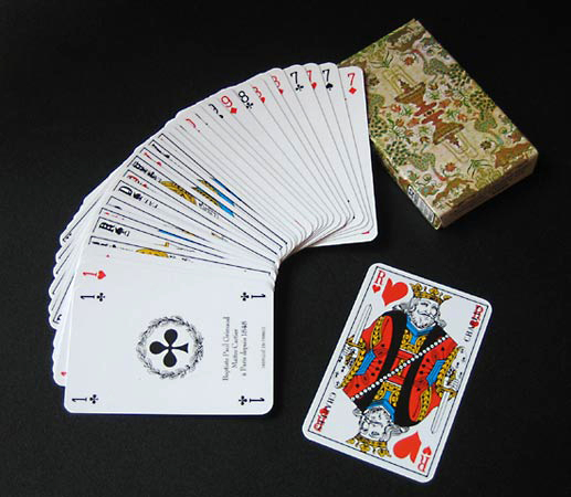 Deck of cards used in the game piquet